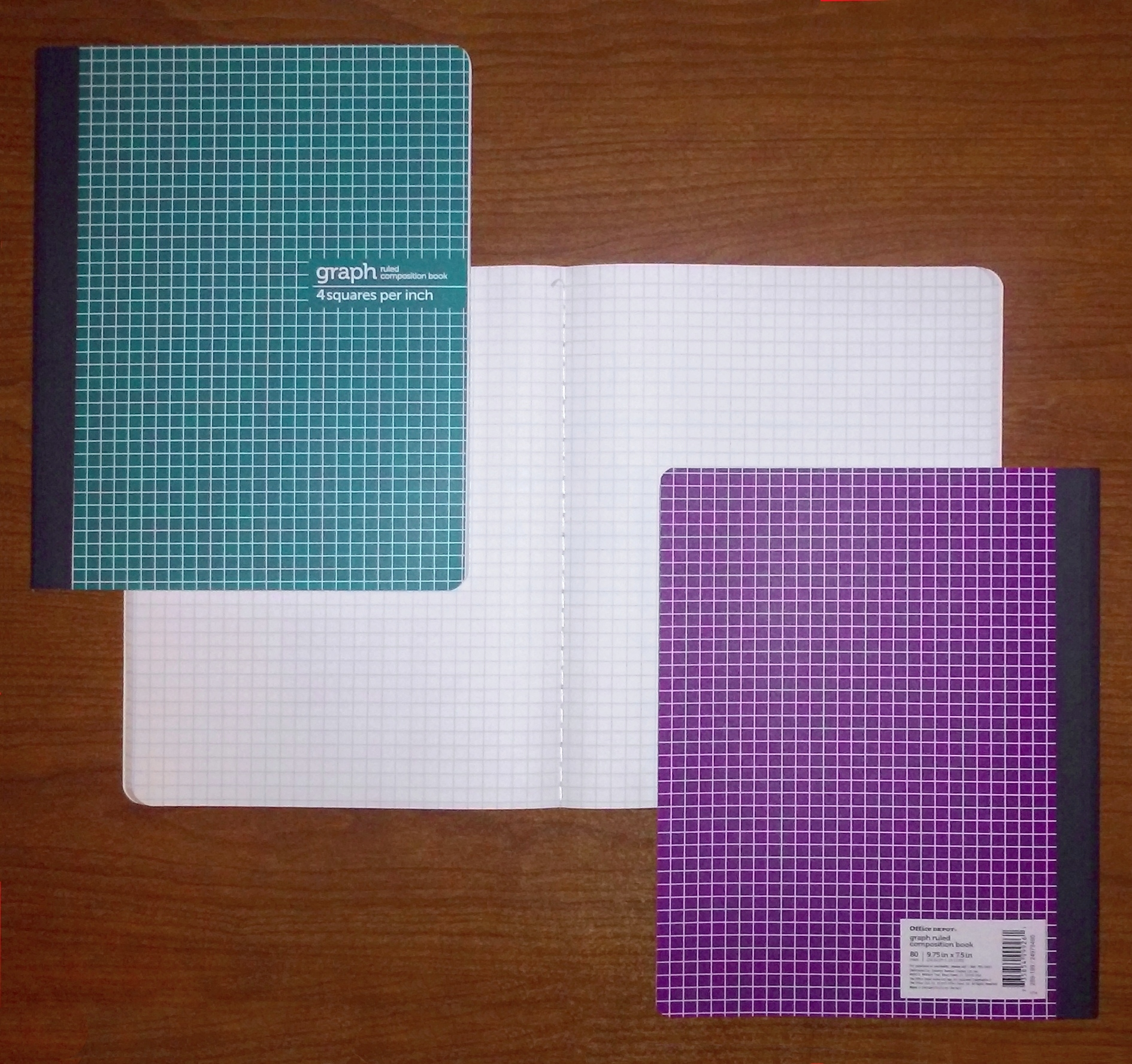 Graph-ruled composition book, 4 squares per inch, 80 pages.